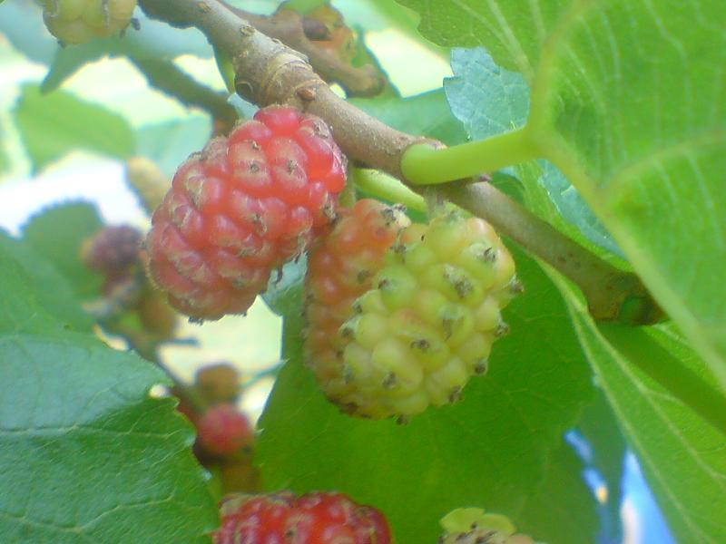 Black mulberry (Morus nigra) fruit in Kew Gardens, England.